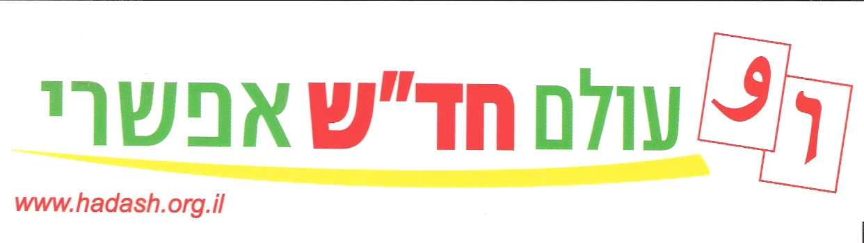 a scan of mine